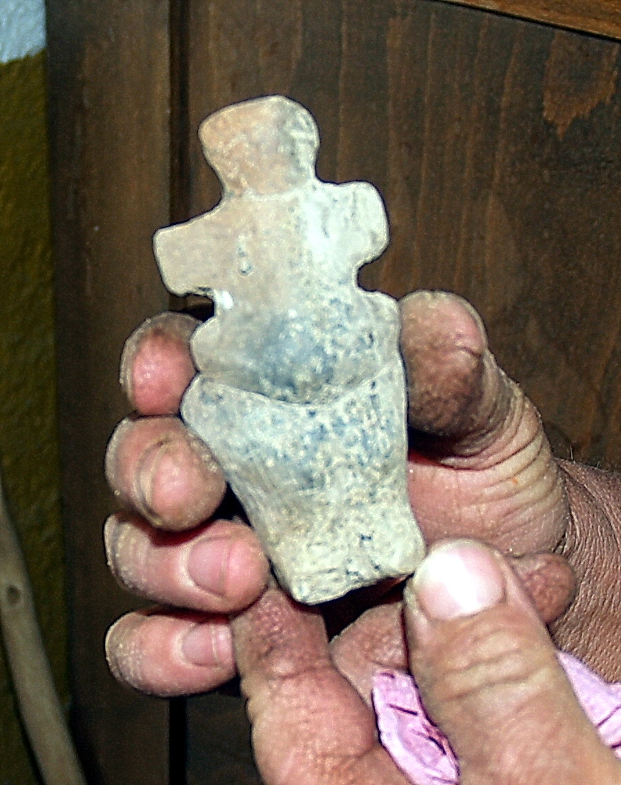 Karanovo Venus in the hands of the site keeper